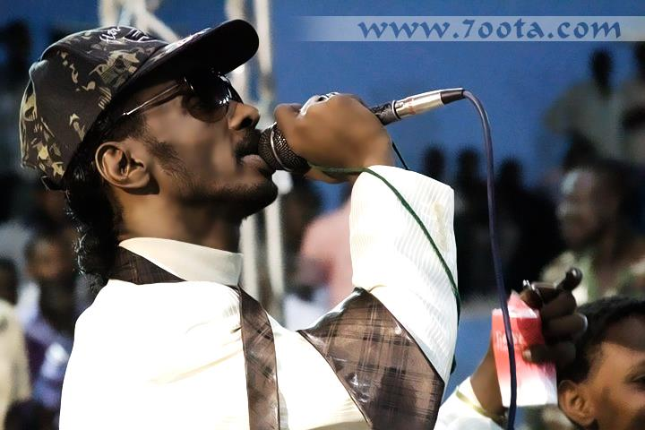 king of the sudan music